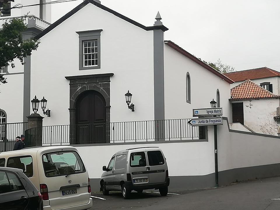 Camacha's Church